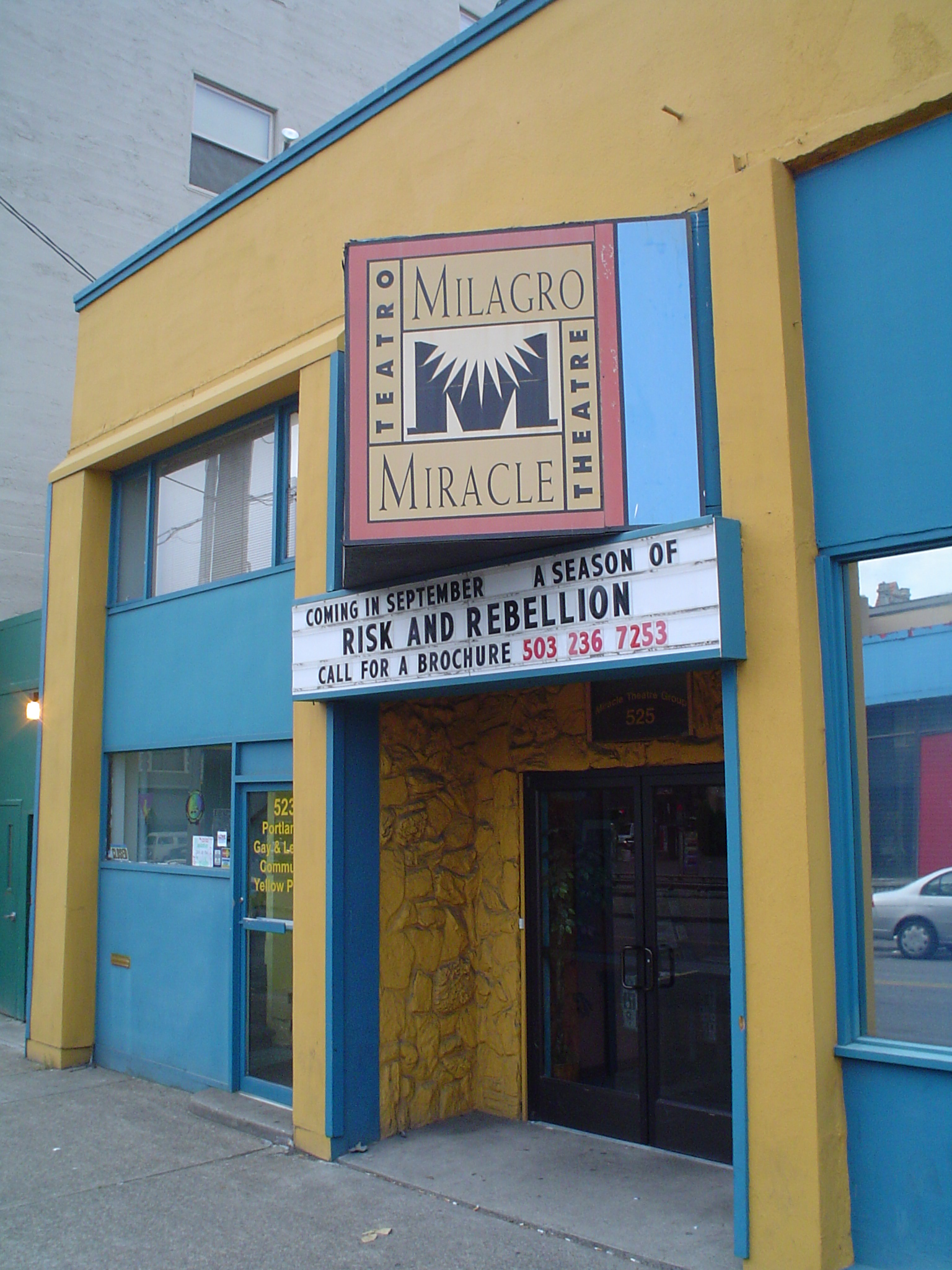 If you redistribute this image anywhere else please list me as the original photographer. Thank you. Andrew Parodi 04:28, 22 May 2007 (UTC)